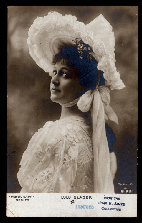 Postcard of Broadway star Lulu Glaser